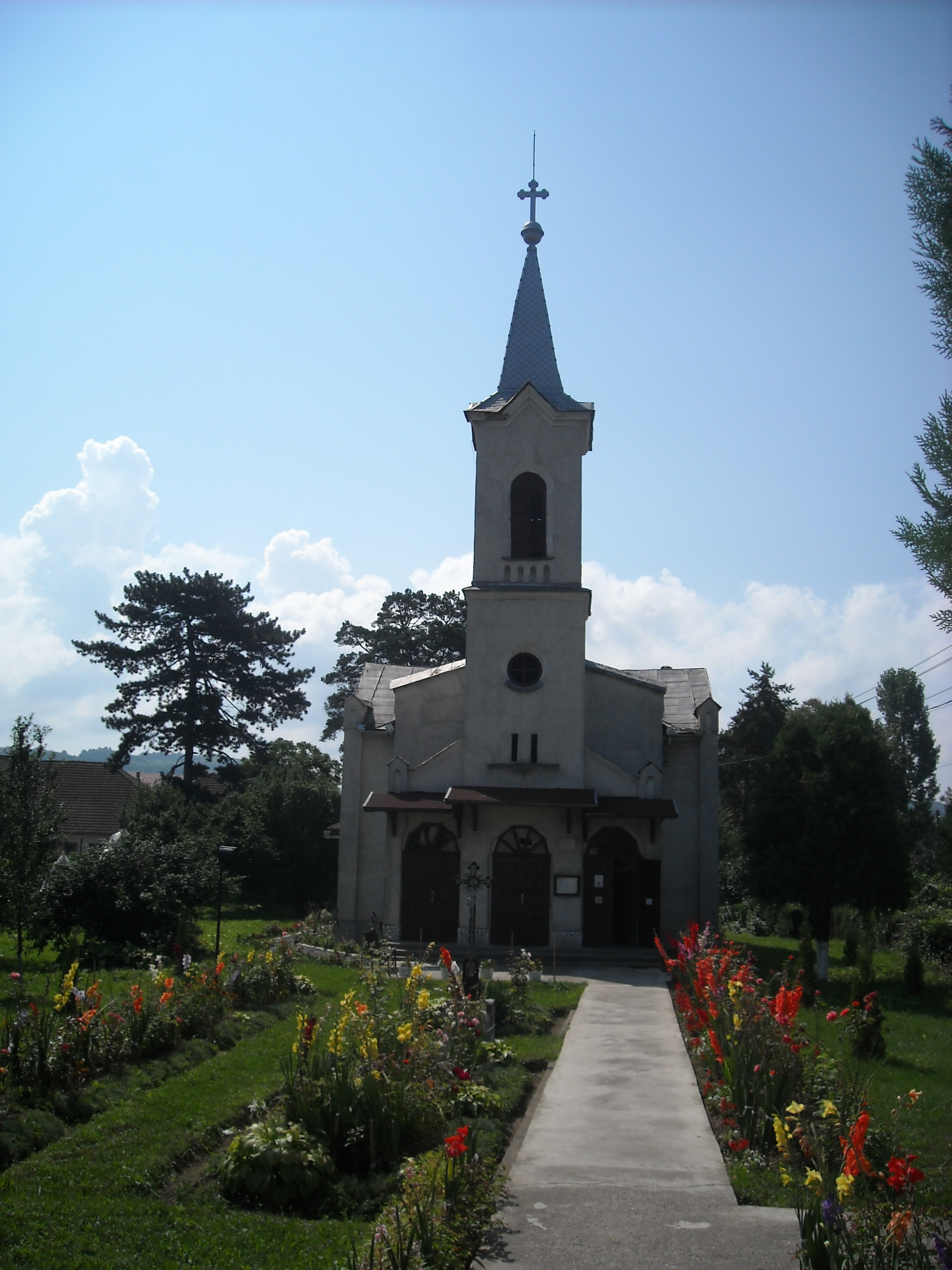 Roman Catholic church in Brad, Romania